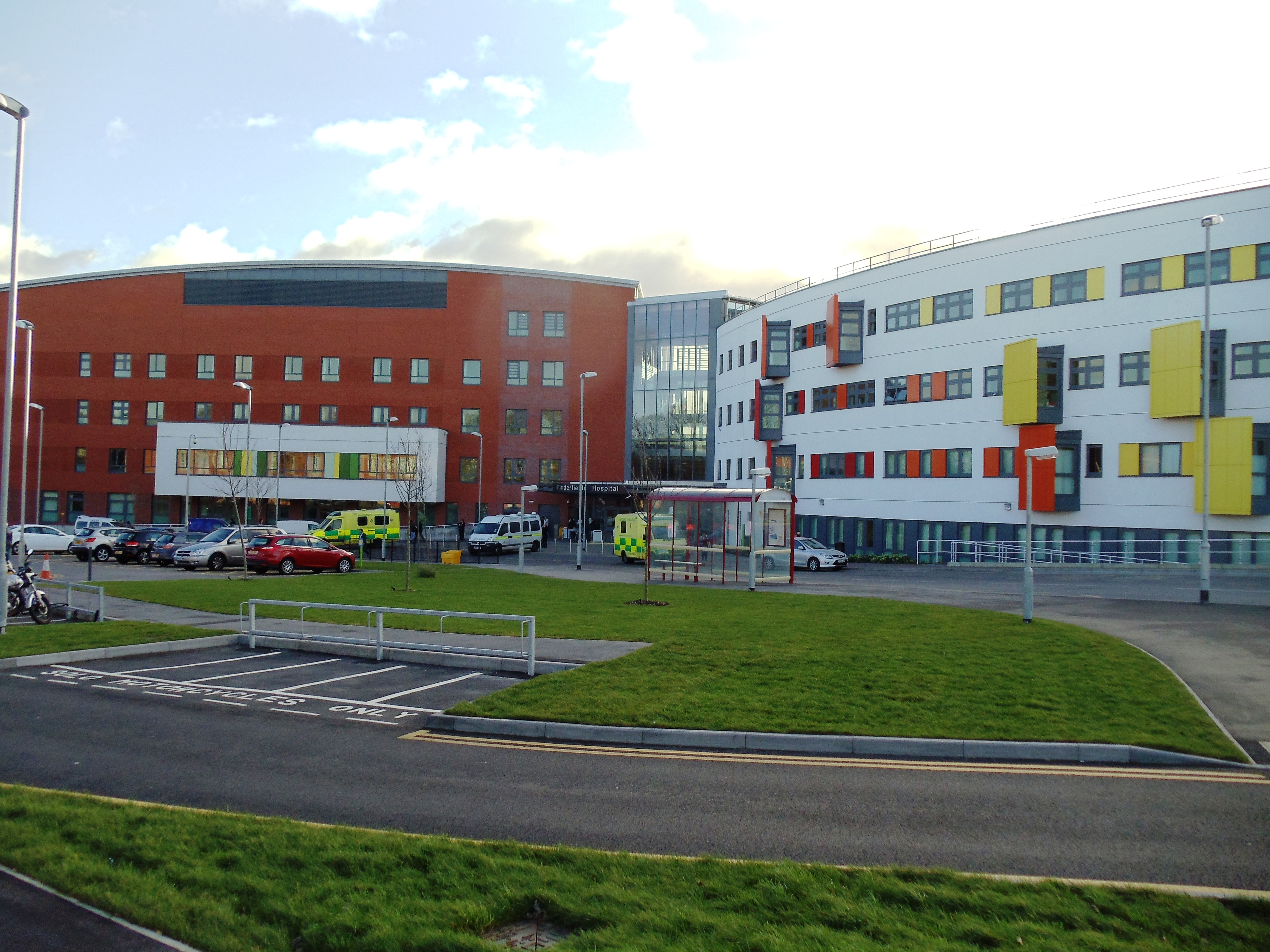 The Main Entrance, Pinderfields Hospital, Wakefield